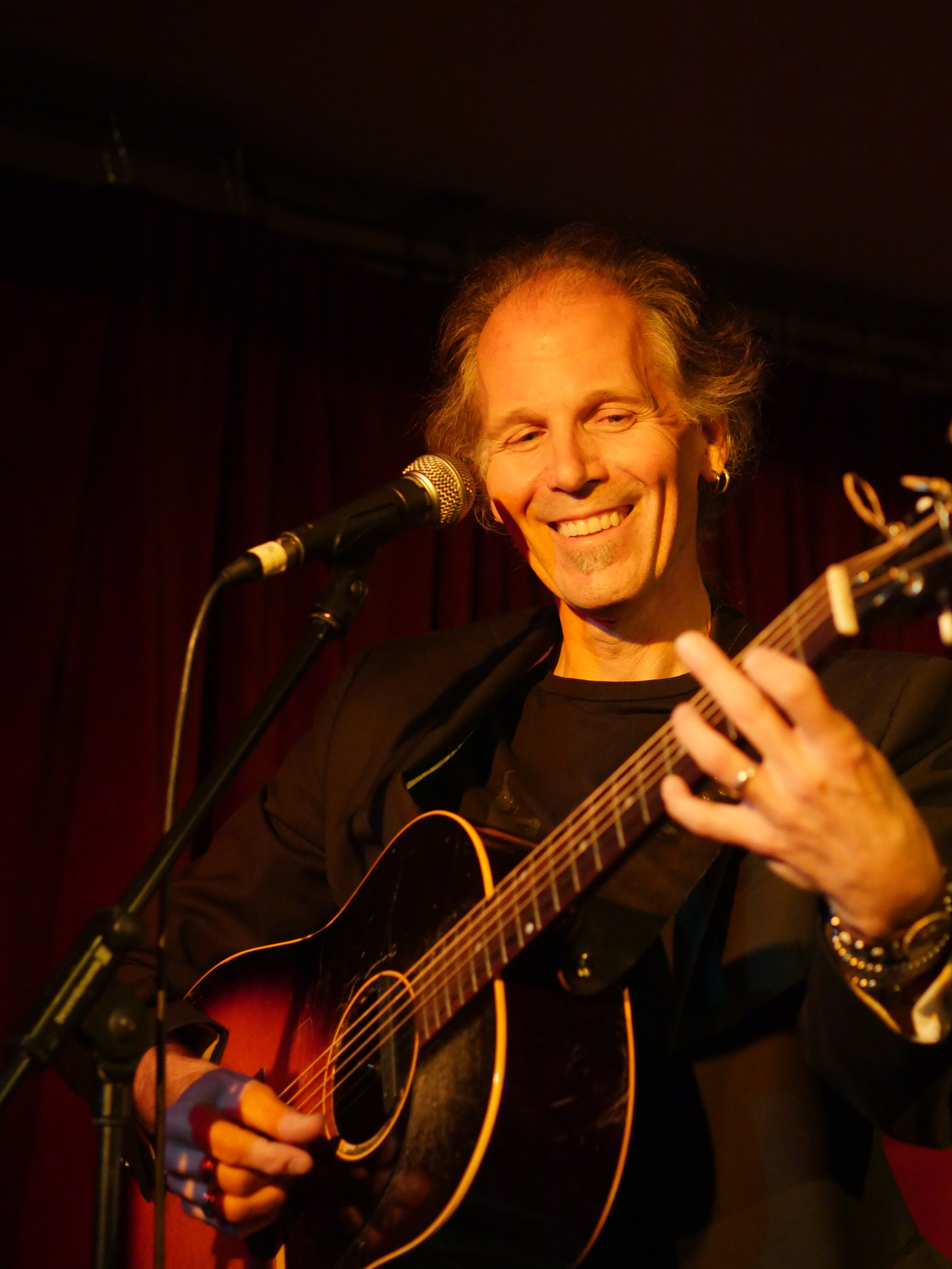 Brooks Williams in concert. CC 2.0 ShareAlike, photo by Mike Watts.